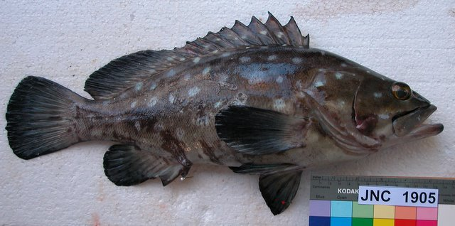 Epinephelus coeruleopunctatus. Locality: Near Fausse Passe de Uitoé, off Nouméa, New Caledonia. Fork Length 493 mm, Weight 1,650 grams. Date 2007/07/10.